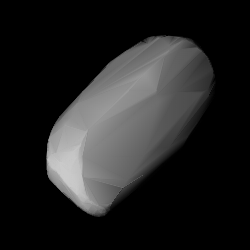 3D convex shape model of 870 Manto, computed using light curve inversion techniques. J. Hanuš, J. Ďurech, M. Brož, B. D. Warner (June 2011). "A study of asteroid pole-latitude distribution based on an extended set of shape models derived by the lightcurve inversion method". Astronomy and Astrophysics 530: A134. ISSN 0004-6361. arXiv